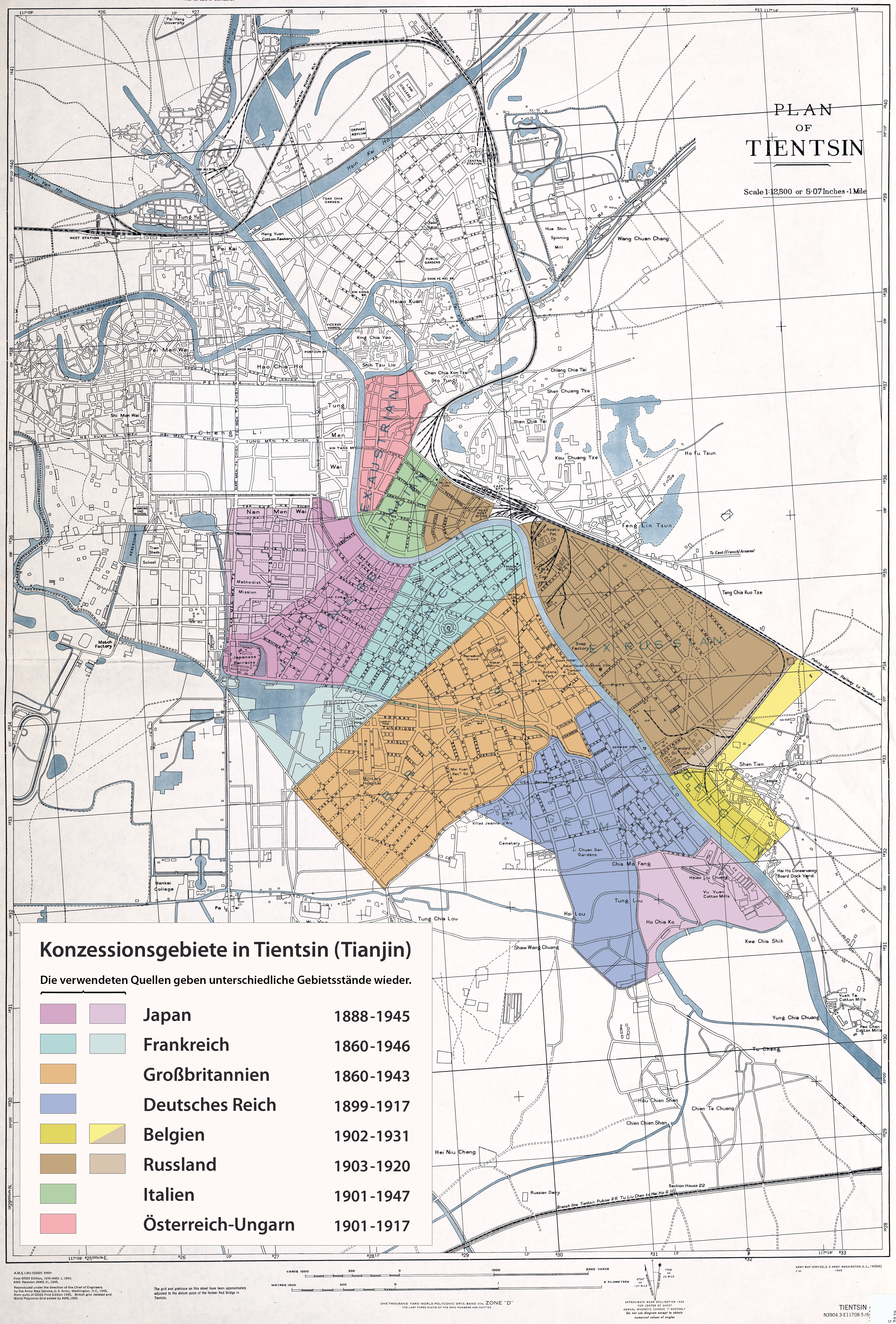 Map of Concessions in Tientsin (Tianjin) - German